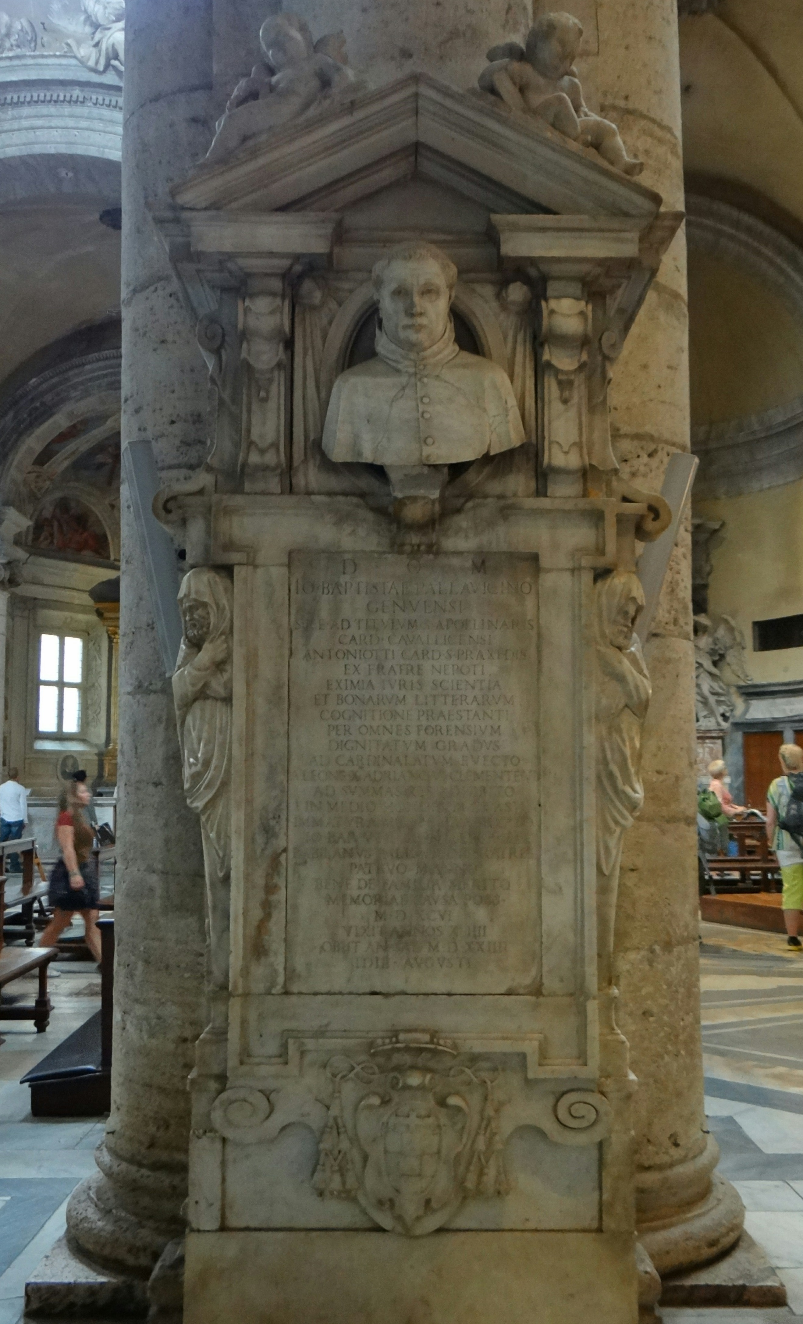 Funerary monument of Cardinal Giov. Batt. Pallavicino in the Basilica of Santa Maria del Popolo, 1596, attributed to Giovanni Antonio Paracca (Valsoldo).